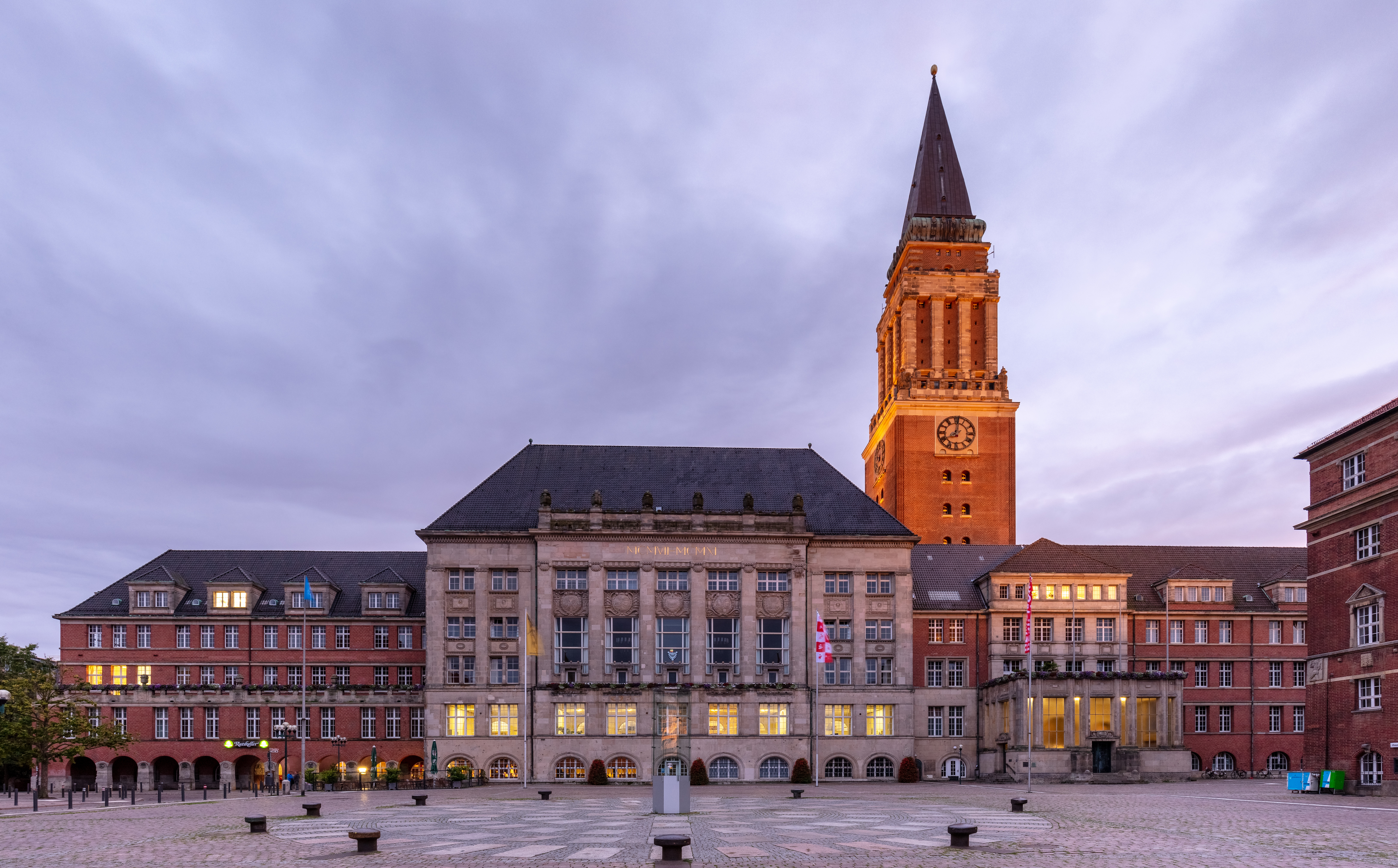 Town hall of Kiel, capital of Schleswig-Holstein, Germany. Its tower, which is 106 metres (348 ft) high, is one of the city landmarks.